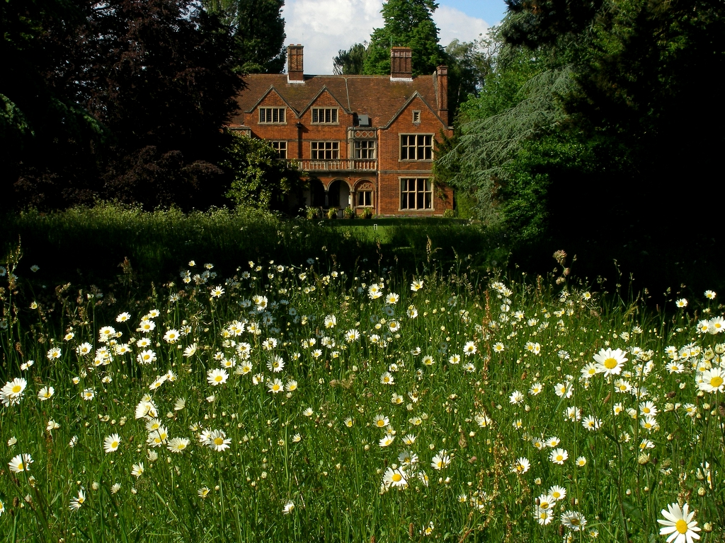 Leckhampton House and garden, Corpus Christi college, May 2006.